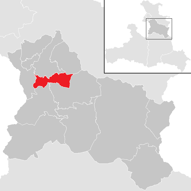 District Hallein